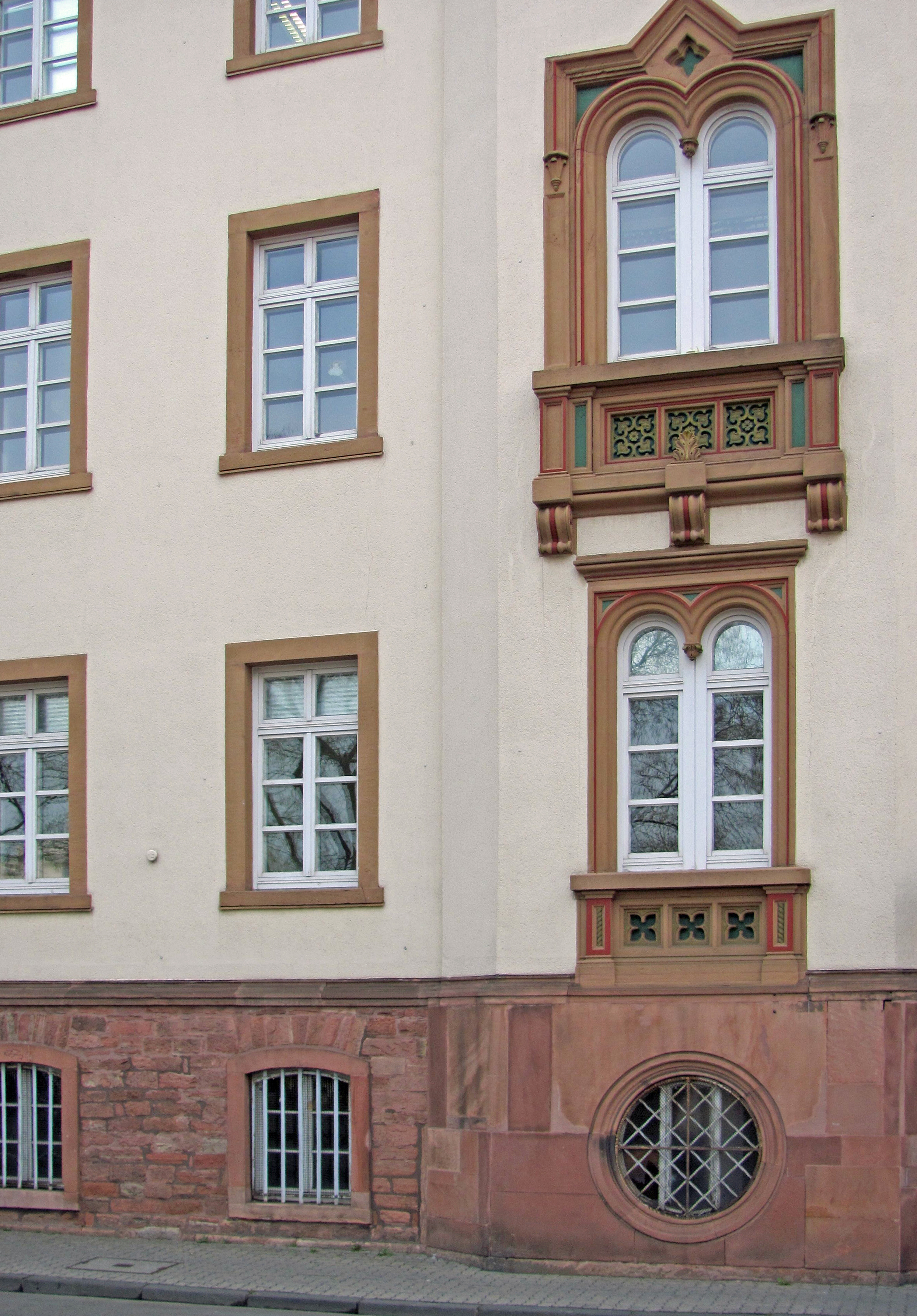 Behoerdenhaus Hanau, Detail